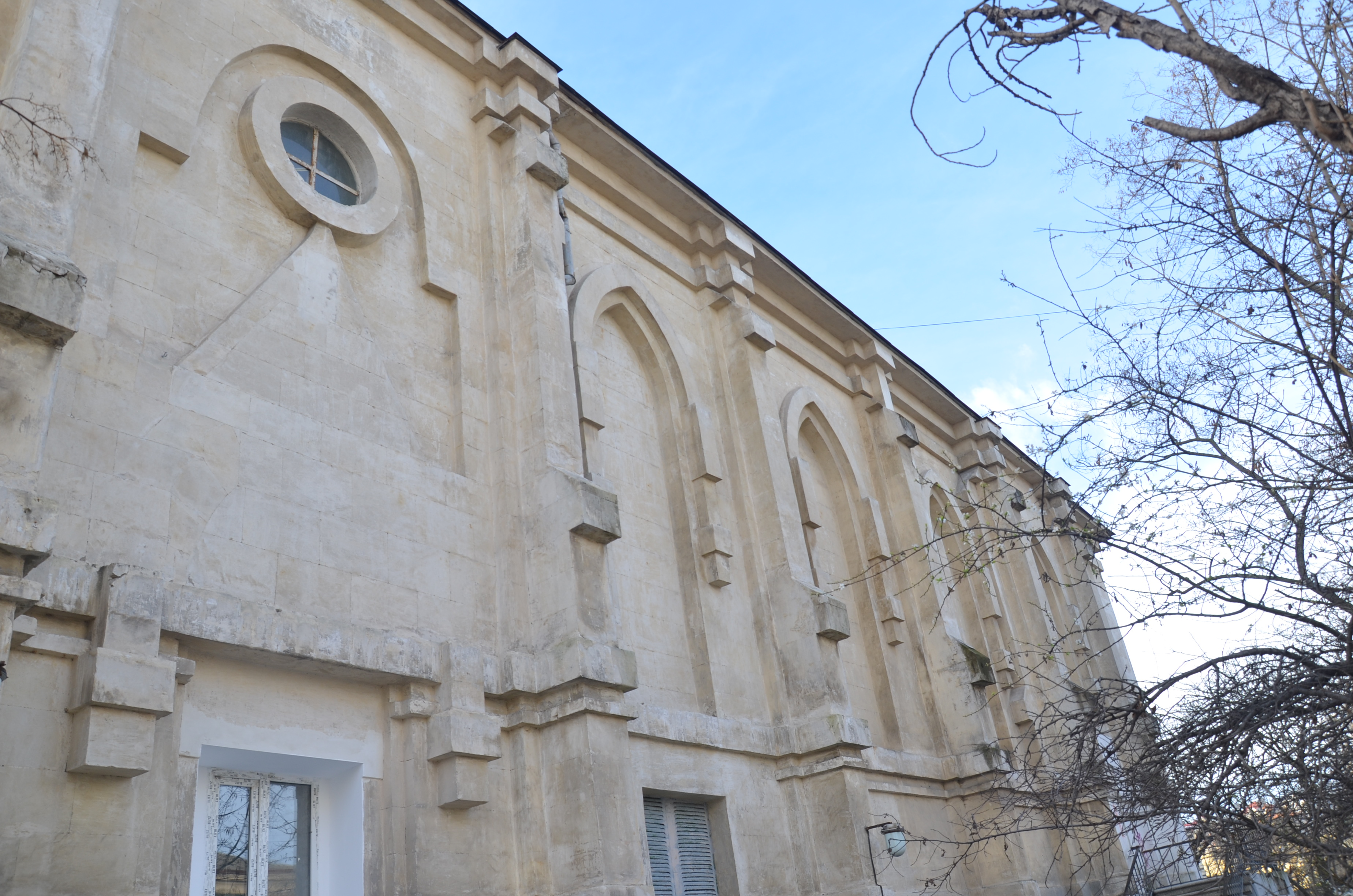 Catholic Church of St. Clement in Sevastopol. Since 1936 was closed by the Soviet authorities. From 1958 to 2010 in the Church building housed a cinema "Druzhba" (Friendship).